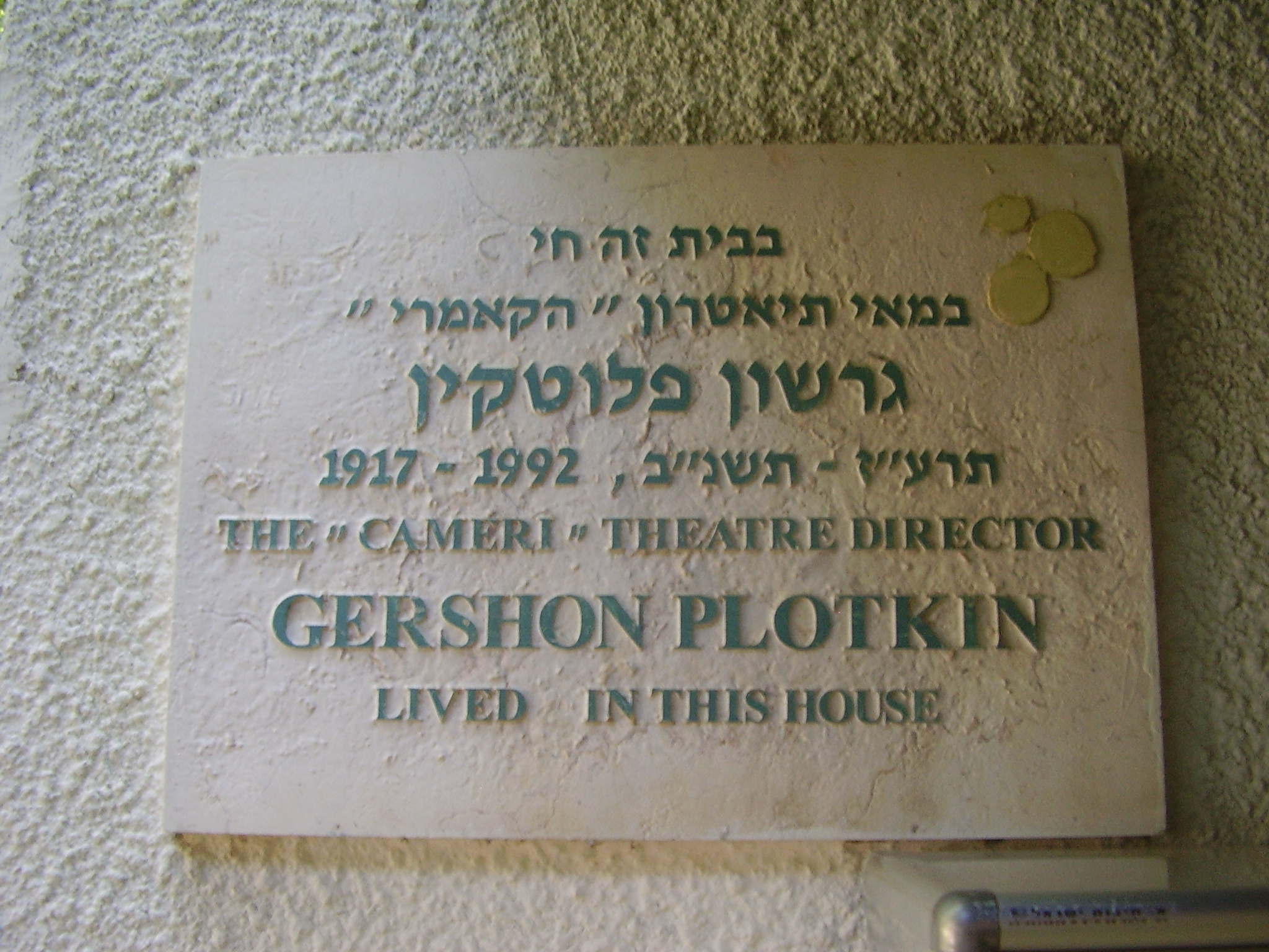 memorial plaque on the house of the actor & director gershon plotkin in tel aviv לוחית זיכרון על ביתו של השחקן והבמאי גרשון פלוטקין ברח' מאפו 28 בתל אביב